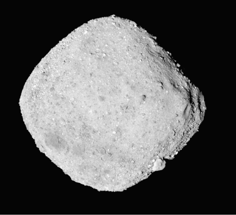 This image of asteroid 101955 Bennu was taken during the OSIRIS-REx spacecraft's approach to the asteroid in November 2018